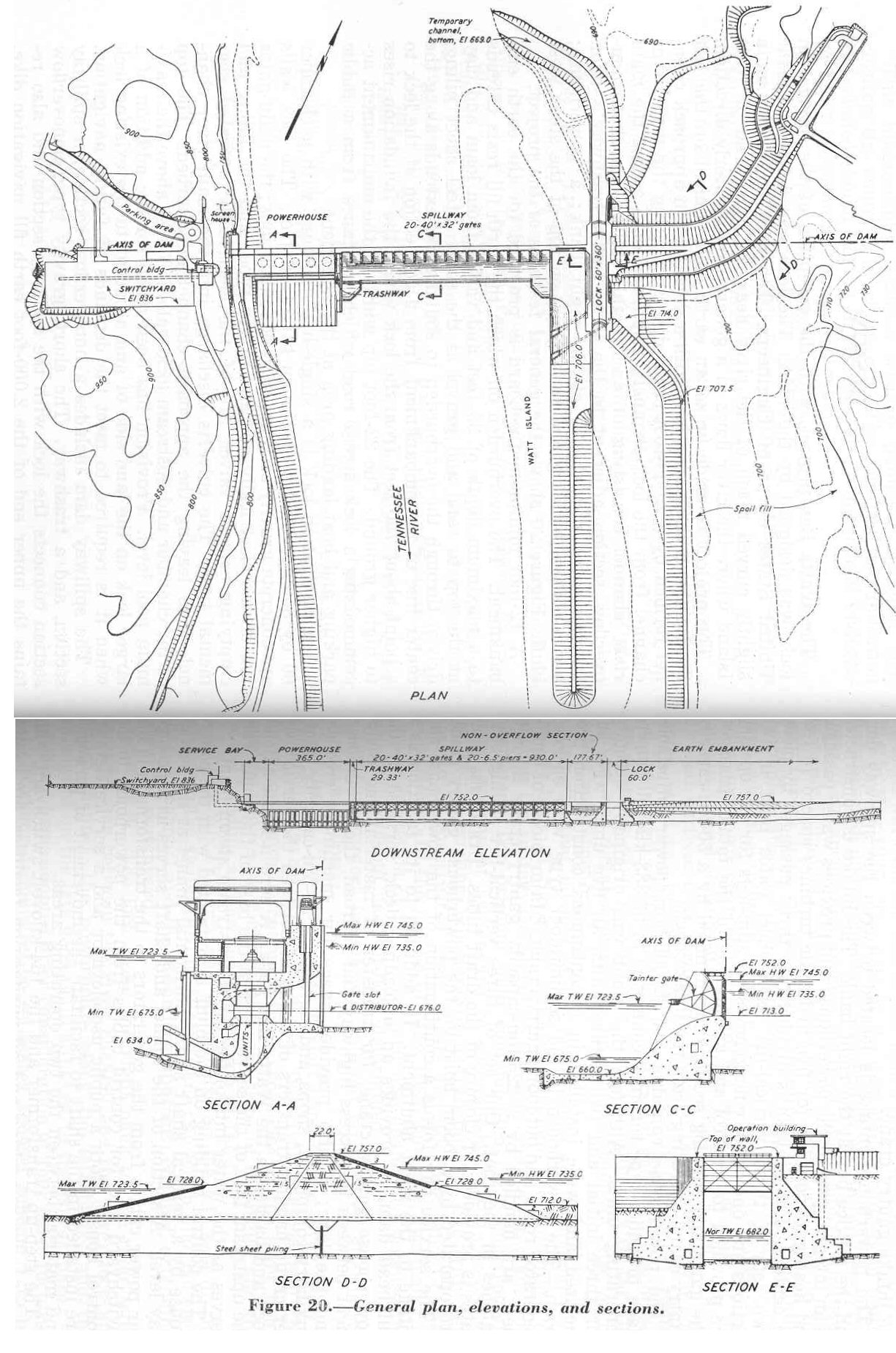 The original plan of Watts Bar Dam, on the Tennessee River in East Tennessee, USA. Note: The shading the middle of the image is due to a page break, and is not part of the actual image.